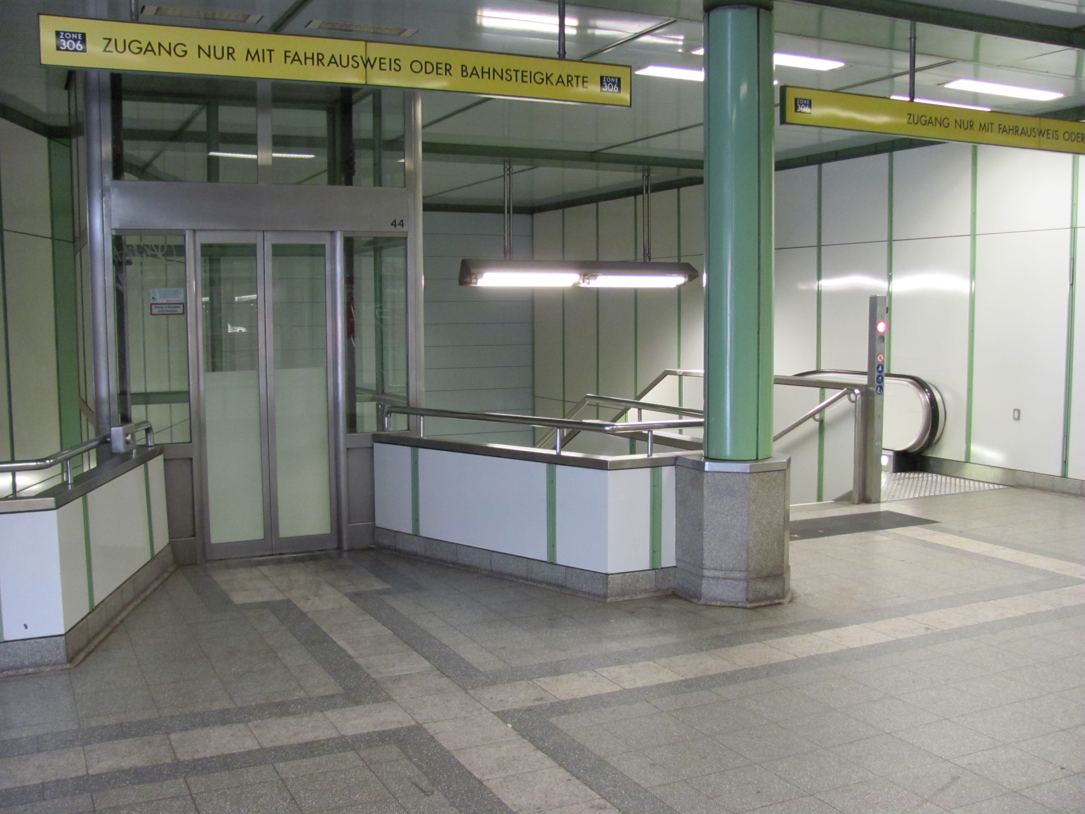 U-Bahn station Steinfurther Allee in Hamburg, Germany